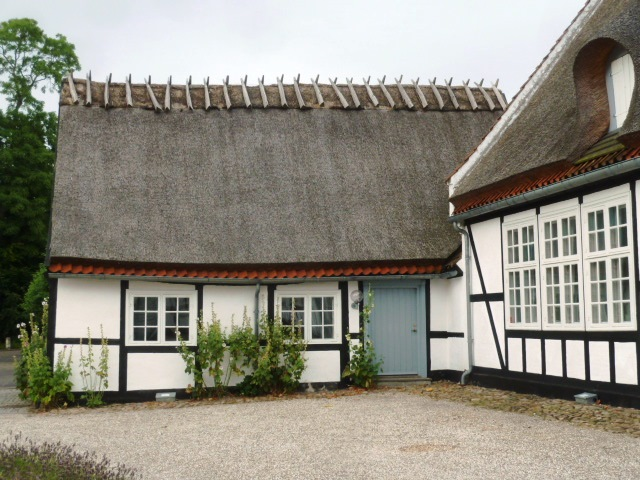 Søllerød Præstegård in Søllerød, Denmark